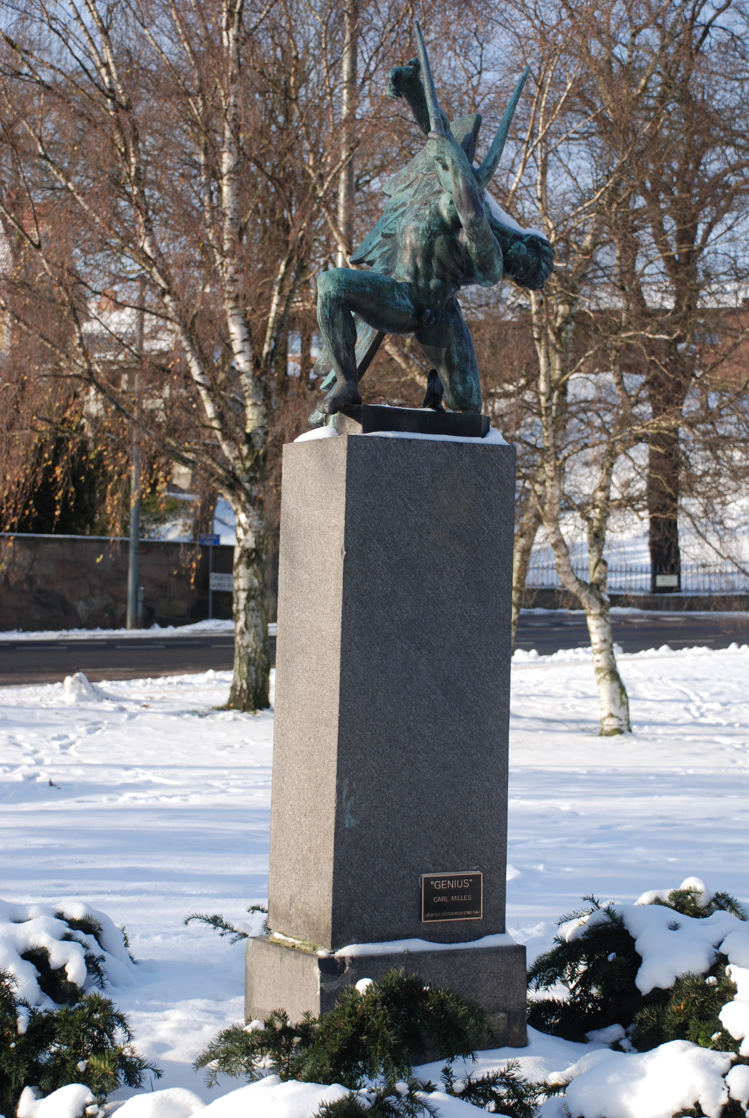 The statue "Genius" by Carl Milles at Sankt Sigfrids plan in Göteborg.